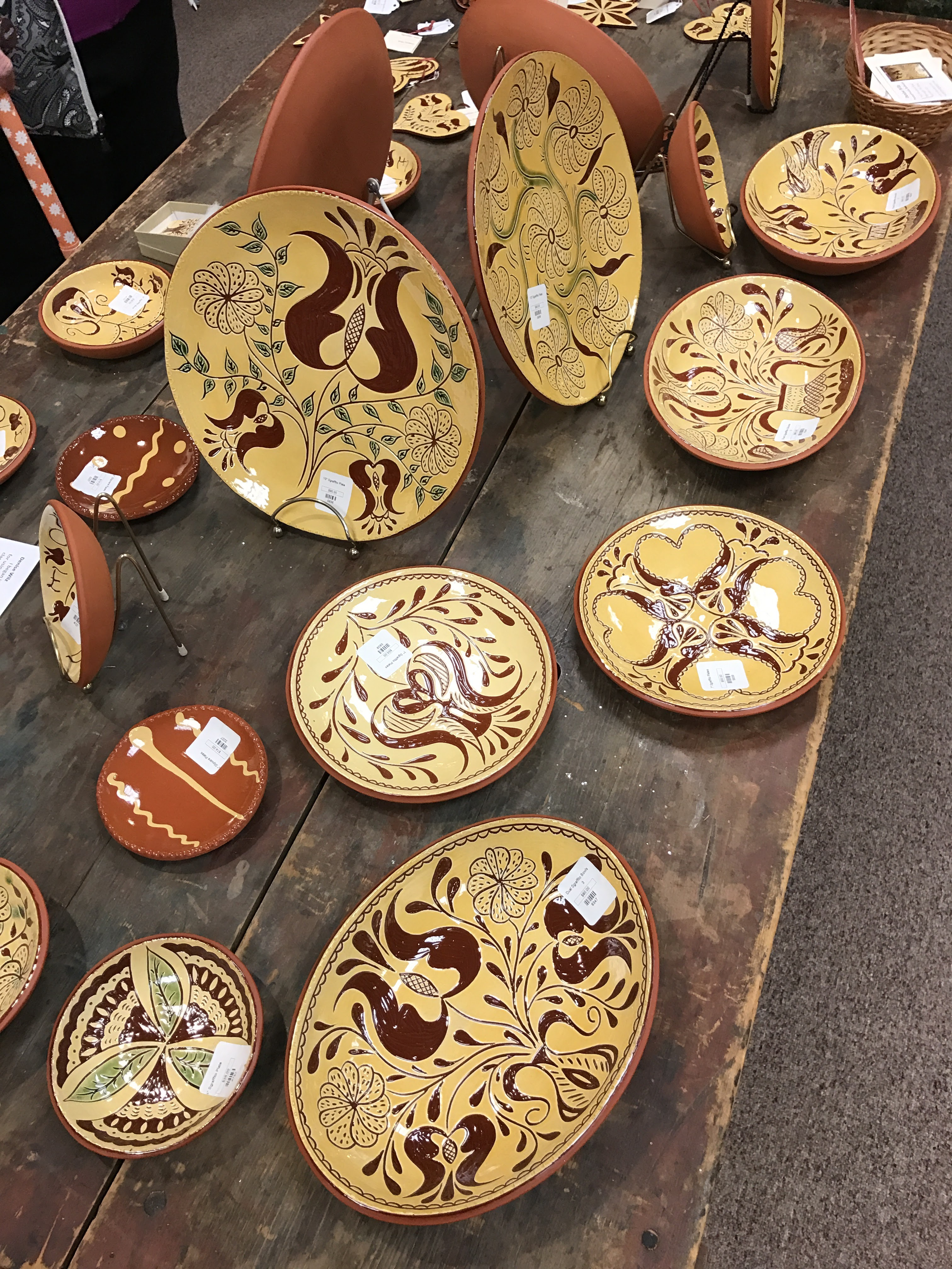 Dishware at Mennonite Heritage Center, Harleysville, Pennsylvania